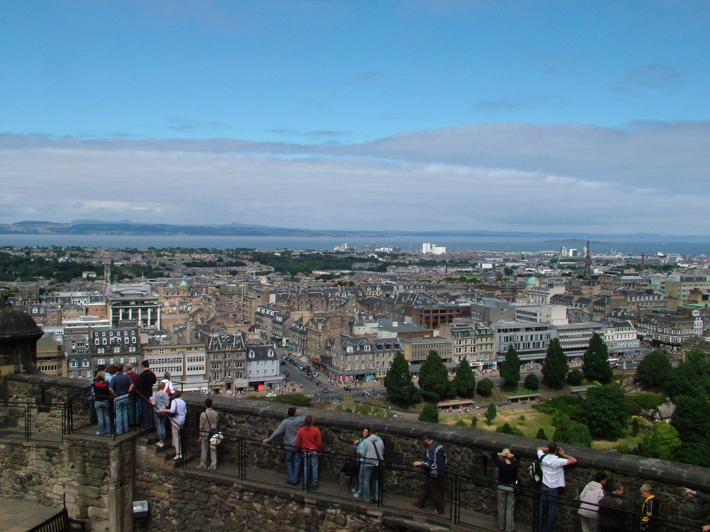 View of the New Town.